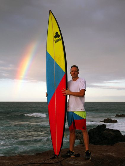 16 February 2012 - Australia For the Love of Australia - Big Wave Surfer Jeff Rowley becomes Ambassador for Tourism Australia Australian Big Wave Surfer and Adventure Athlete, Jeff Rowley has been invited to become an ambassador for Tourism Australia to promote Australia to the world as part of their 'Friends of Australia' campaign. Tourism Australia has enlisted high-profile Australians including Dick Smith, Baz Luhrmann, The Wiggles and Curtis Stone to share why there is no other destination like Australia. According to Managing Director, Andrew McEvoy, the 'Friends of Australia' campaign "harnesses the power of bright and influential individuals who are making a name for themselves on the world stage, and who have a genuine affinity with Australia". Rowley has made an impact on the world stage as a big wave surfer and extreme adventure daredevil. Rowley became the first Australian to paddle in to and catch gigantic waves at "Jaws" Peahi, Maui on 4 January 2012 - at the same time achieving his 2011/12 'Charge for Charity' mission, his personal quest to paddle in to and catch a 50 feet (15 metres) wave while attempting to raise $1,000,000 for Breast Cancer Australia. Rowley is the only adventure athlete that has been declared a 'Friend of Australia' to share his experience of why there is no place like surfing in Australia. On receiving the honourable invitation, Rowley exudes "I absolutely love Australia - It's an easy job promoting Australia". "I just tell everyone about the koala's we drive past on the way to the surf or how we go camping and wake up to kangaroos eating grass outside our tent in the morning - there's no other place like Australia". "There's nothing better than waking up to check the surf and have a joey drink from my mug, that's my Australia".